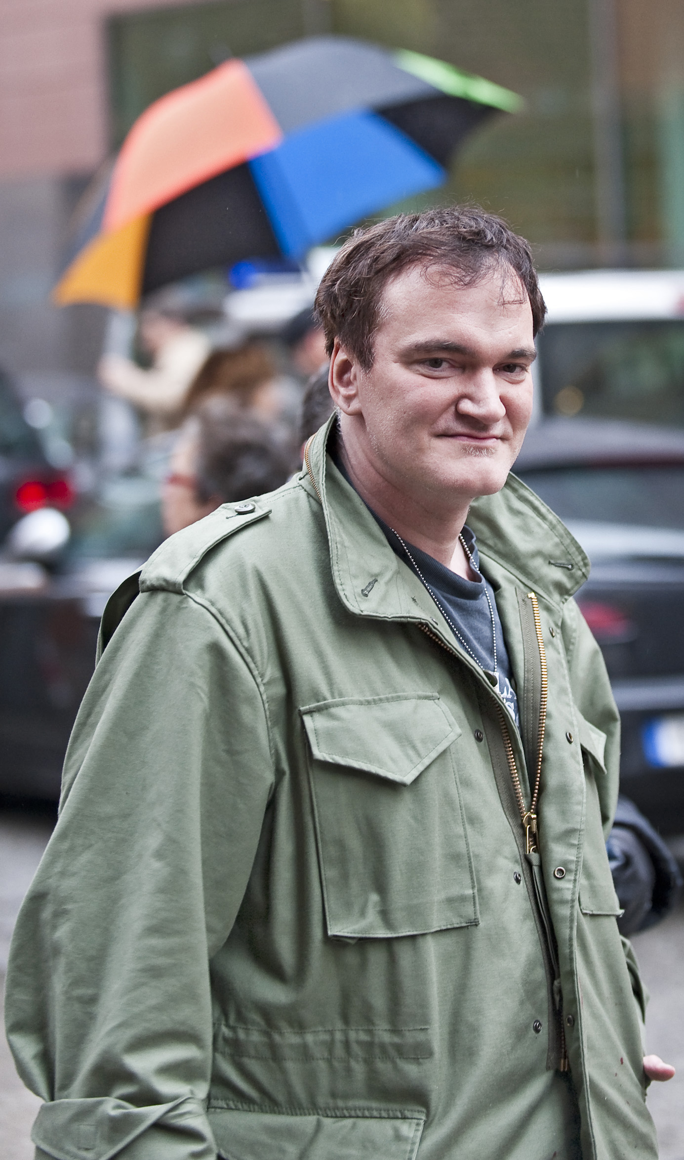 Quentin Tarantino at the Berlin Film Festival 2009